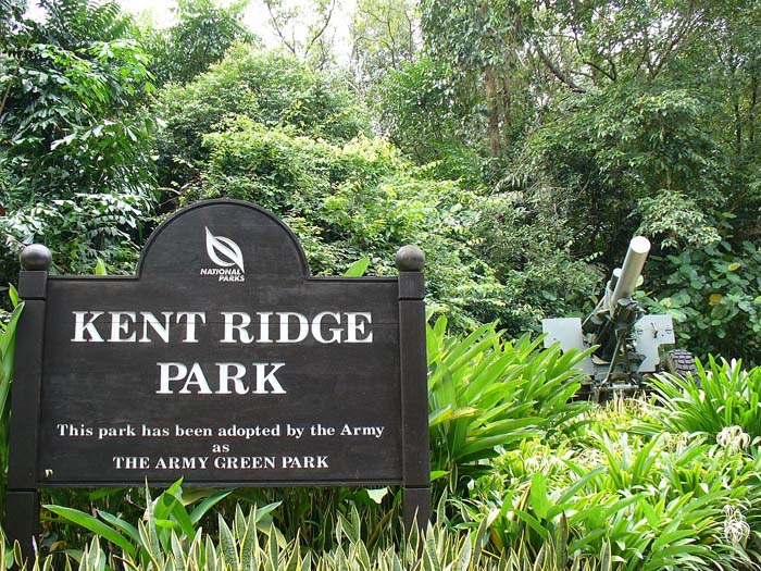 A sign at the Vigilante Drive entrance to Kent Ridge Park, Singapore. To the right is a decommissioned M114 155 mm howitzer gun donated by the Ministry of Defence.